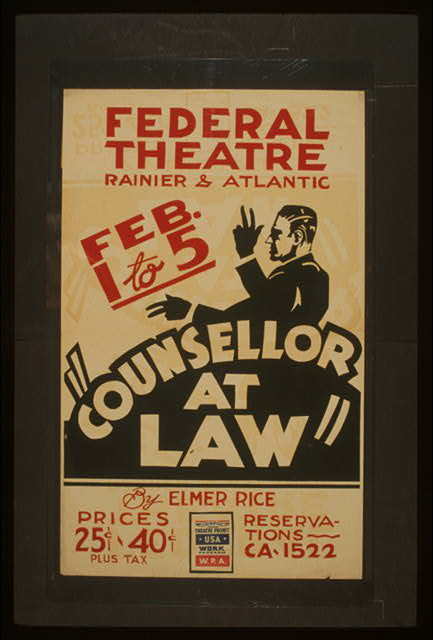 Poster for Federal Theatre Project presentation of "Counsellor at Law" at the Federal Theatre, Rainier & Atlantic Streets. 1938